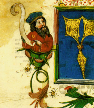 A german Jew wearing "la rouelle" on the chest, a small yellow ring as a form of antisemitic stigma. From a Passover prayers manuscript, in Hebrew.